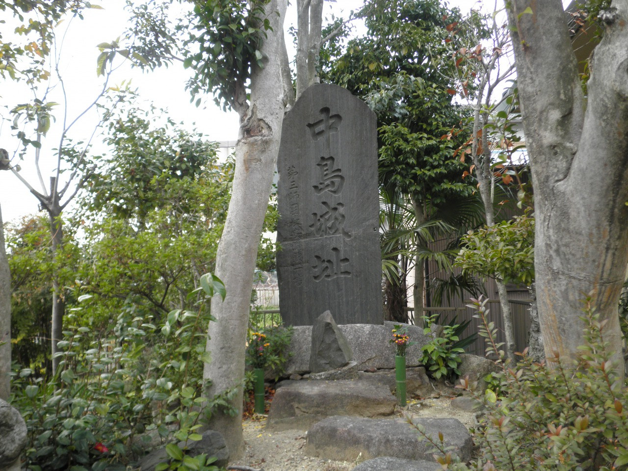 The Monument of Nakjima Fort Site located in Aichi Pref.,Japan